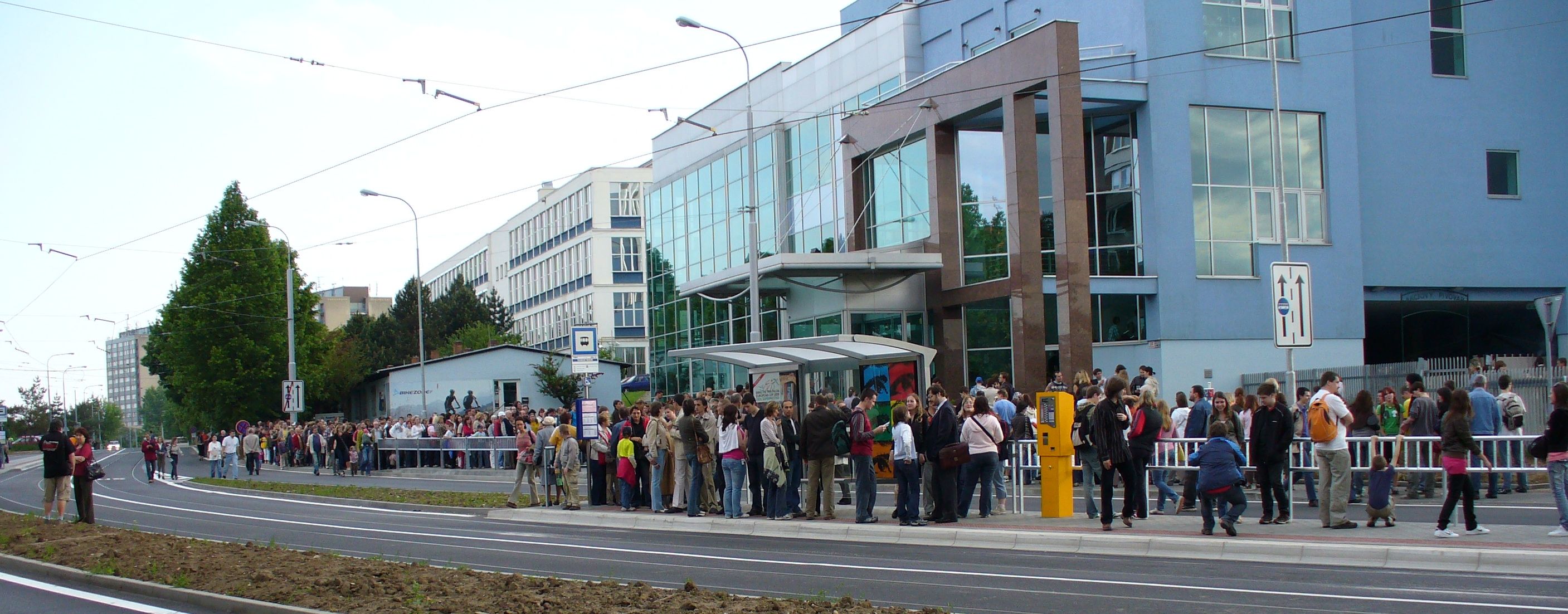 Night of Museums 2008 in Brno, Czech Republic. Queue in front of the Technical Museum.